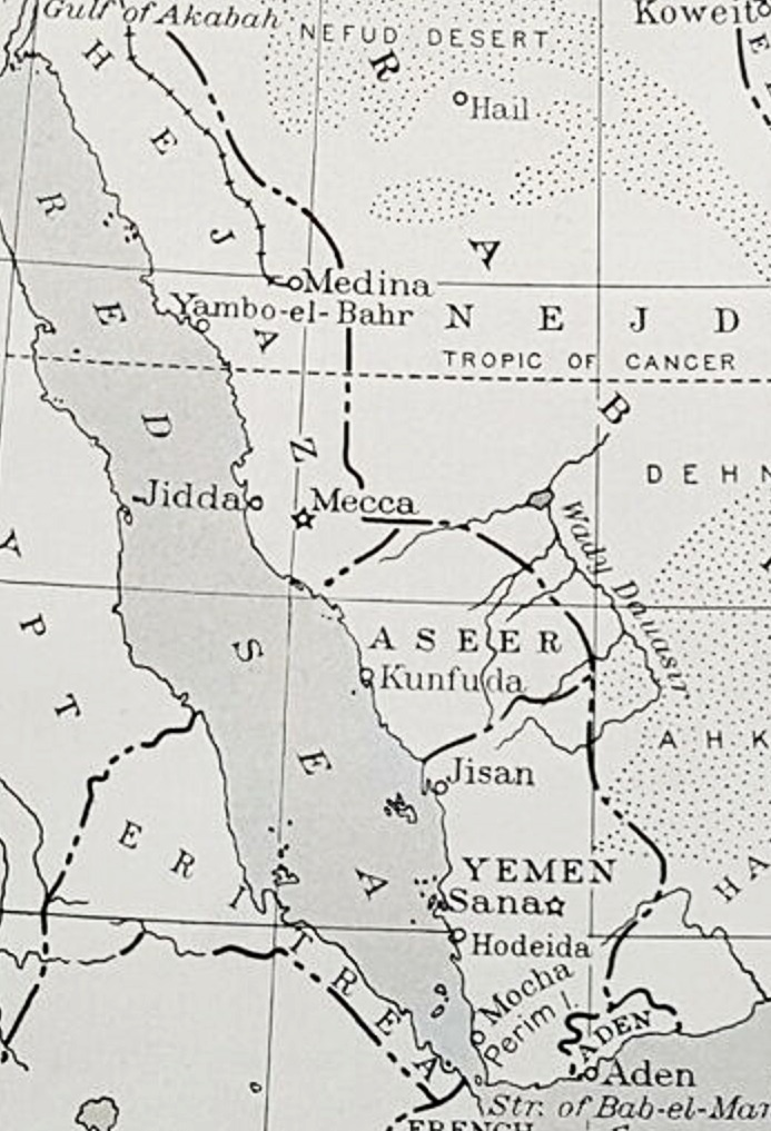 Cropping from a sketch map published in 1919 showing the location of the states on the western side of the Arabian Peninsula — Hejaz, Asir ('Aseer'), Yemen — following World War I.